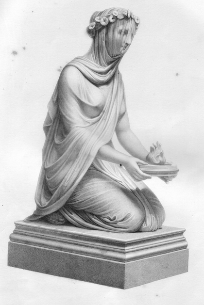 Veiled Vestal by Raffaelle Monti now at Chatworth House